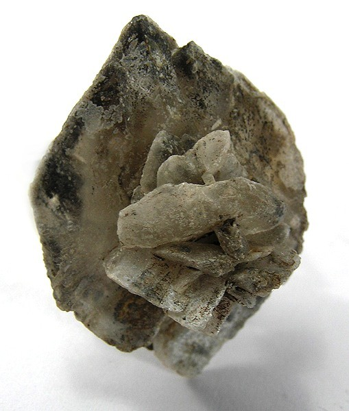 Glauberite Locality: Bertram Mine (Bertram Siding Sulfate deposit; Bertram Sodium Sulphate deposits), Bertram siding, Imperial County, California, USA (Locality at ) Size: 4.1 x 2.9 x 2.3 cm. This California glauberite specimen (not a pseudo) is a flattened crystal, in this case with clusters of small crystals sticking out of both sides. Ex. Carlton Davis Collection.